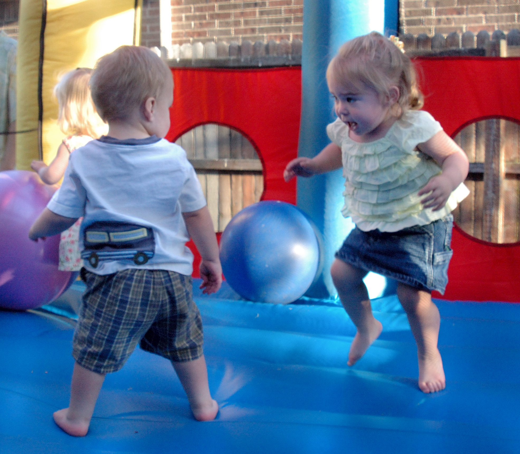 The surface is a tarp that is inflated soft enough to be difficult to jump or walk on without falling.